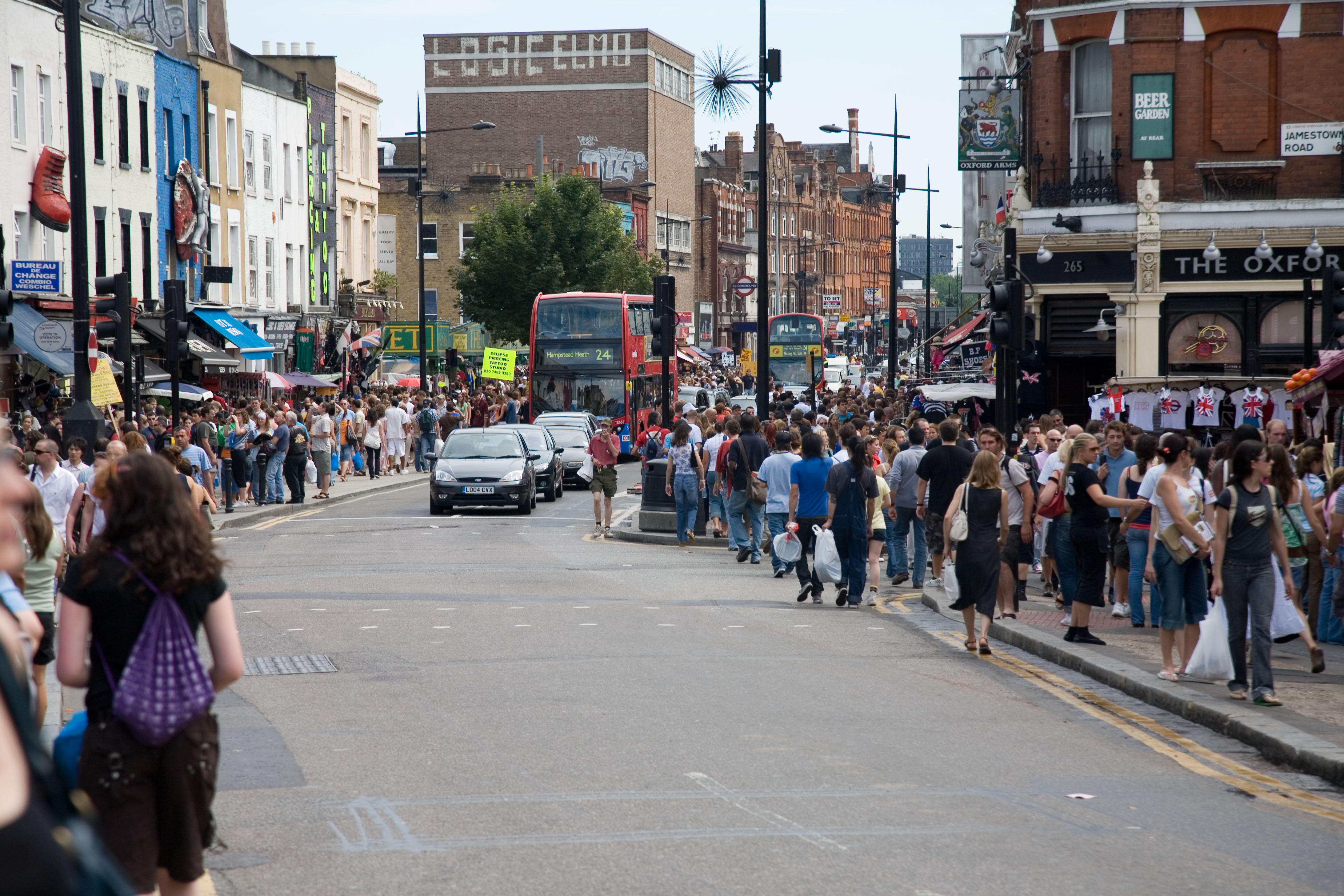 The view south on Camden High Street in Camden Town, London, England. Taken by myself with a Canon 5D and 24-105mm f/4L IS lens.